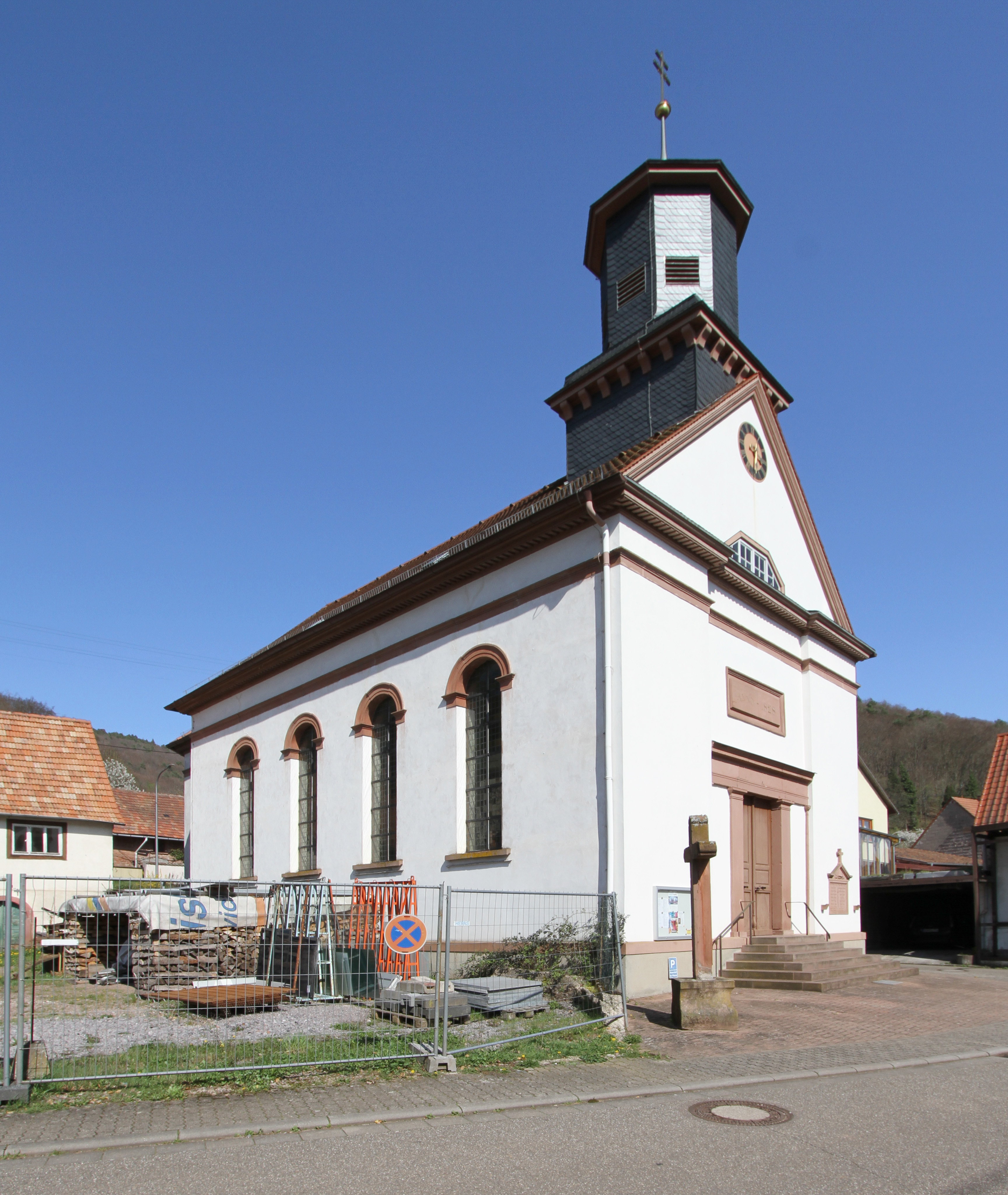 Church of Saint Giles in Waldrohrbach.